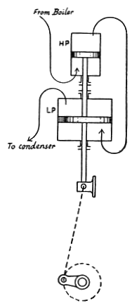 Working principle of the Woolf compound engine. Diagram from "Heat Engines" (1913 book)